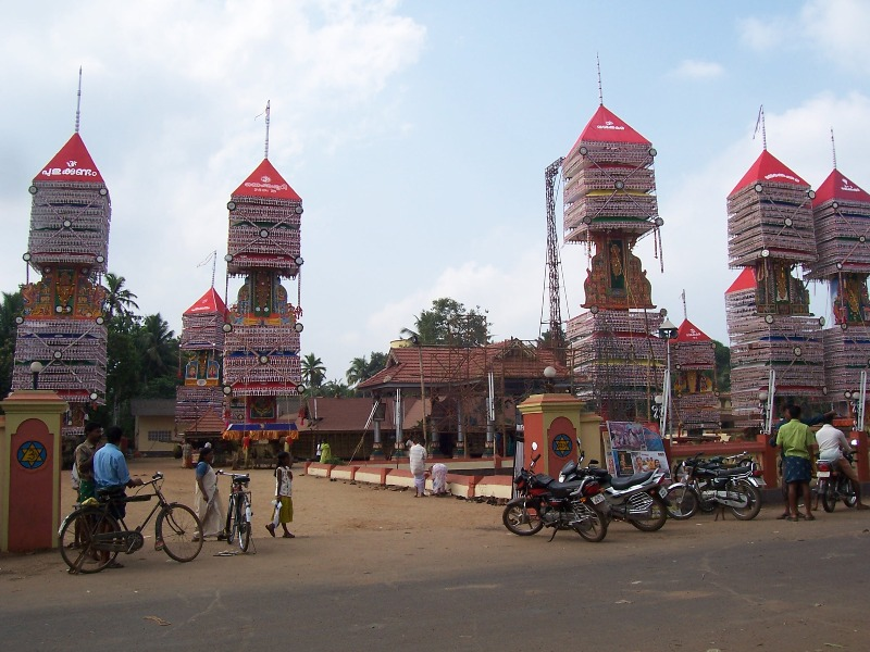 Devan Sali